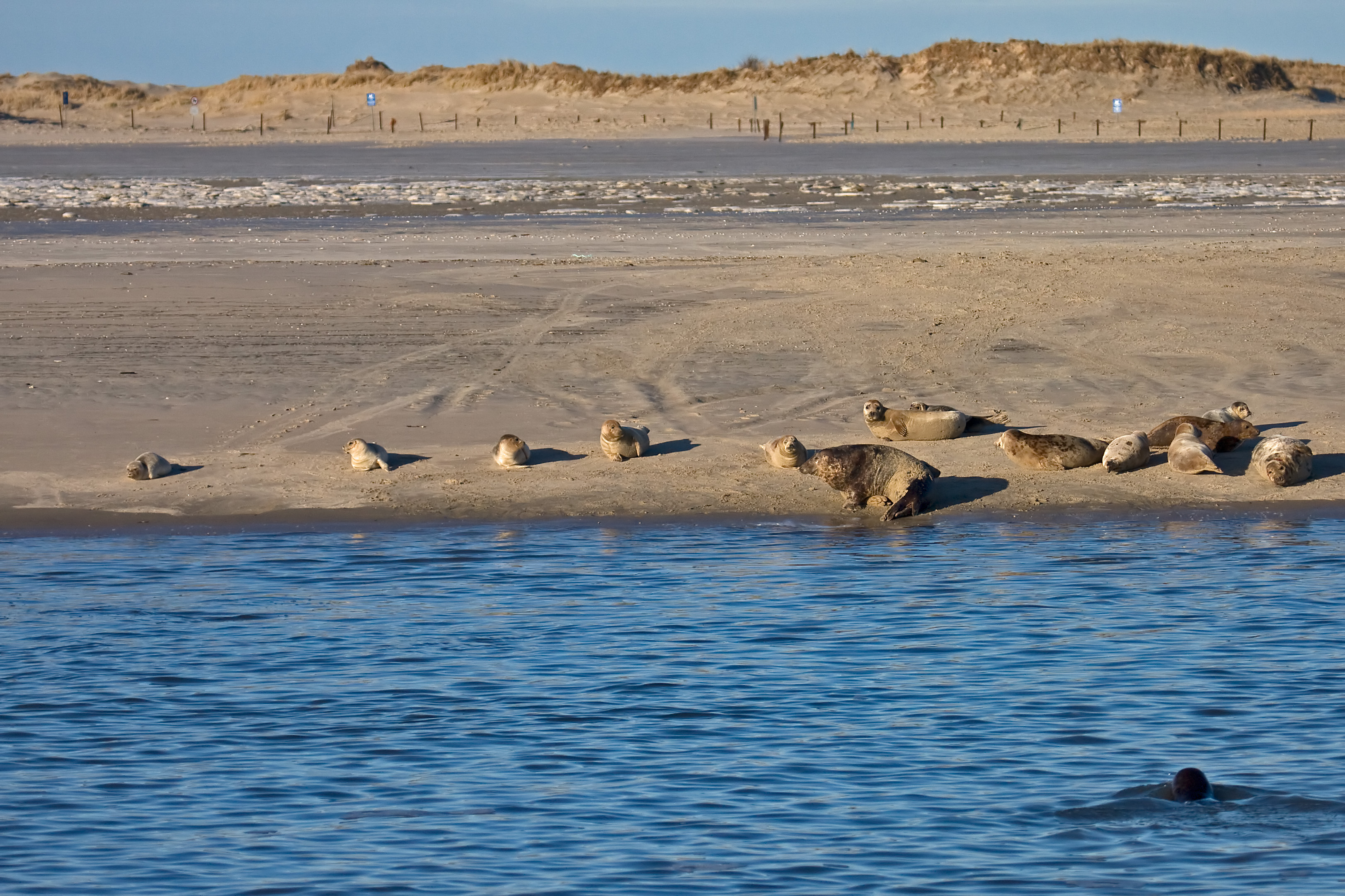 Few days old juvenile at the beach of Norderney